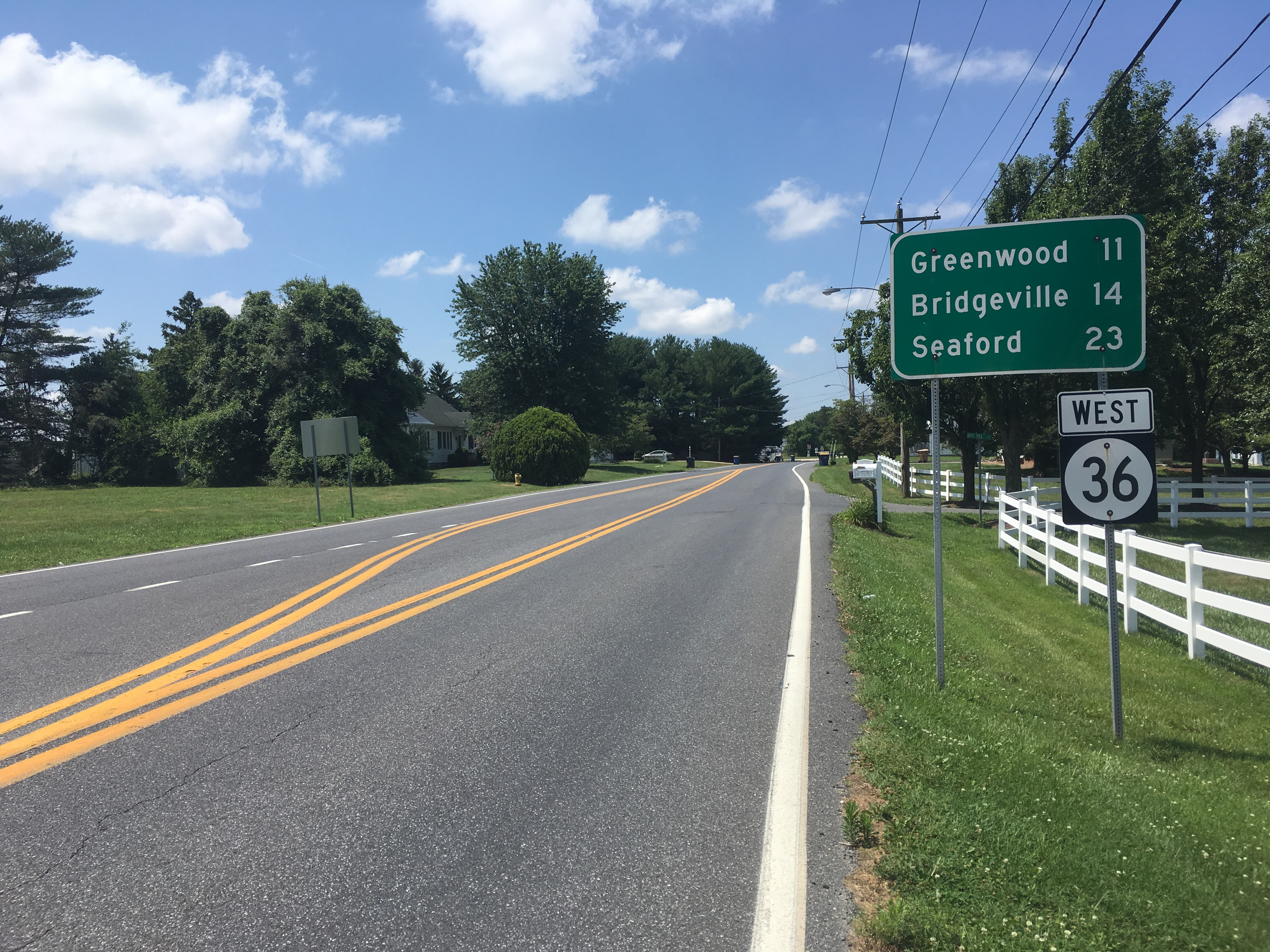 Westbound Delaware Route 36 (Shawnee Road) past the intersection with U.S. Route 113 (Dupont Boulevard) in Milford, Delaware